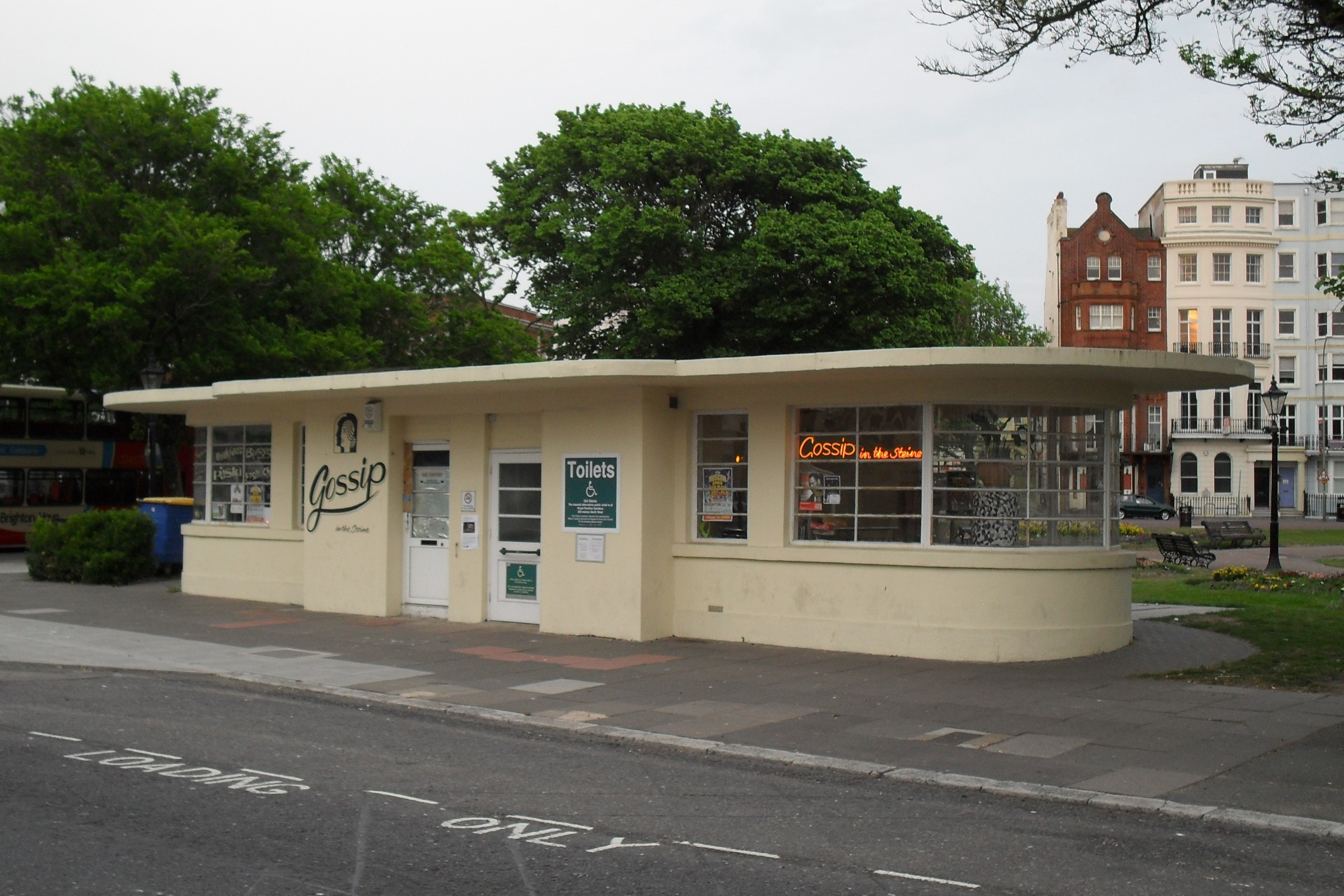 Gossip in the Steine Café, Old Steine, Brighton, City of Brighton and Hove, East Sussex. Built in 1935 to replace a previous tram shelter (Transport Committee Minutes The Keep DB/ B243/3.). Built to include underground public toilets; then became a café in 1998. Listed at Grade II by English Heritage (IoE Code 481007)